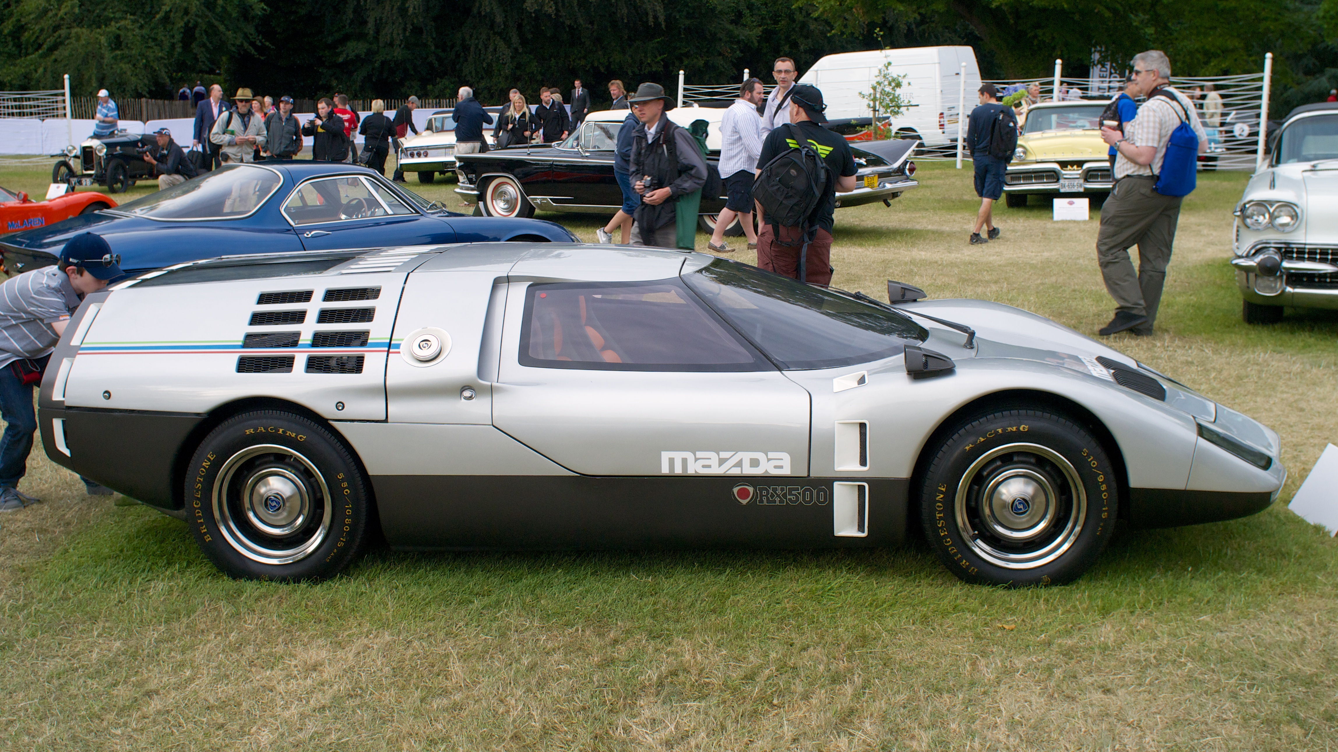 1971 Mazda RX500. Goodwood Festival of Speed 2014.